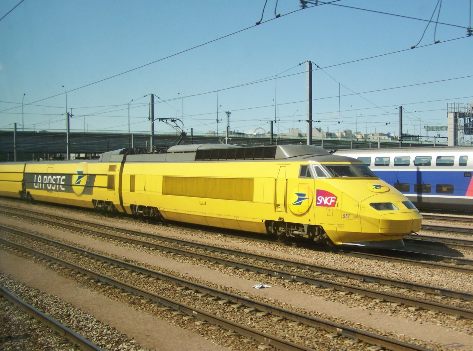 Sight of French TGV Postal near gare de Lyon in Paris.